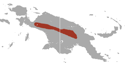 Pygmy Ringtail Possum (Pseudochirulus mayeri) range